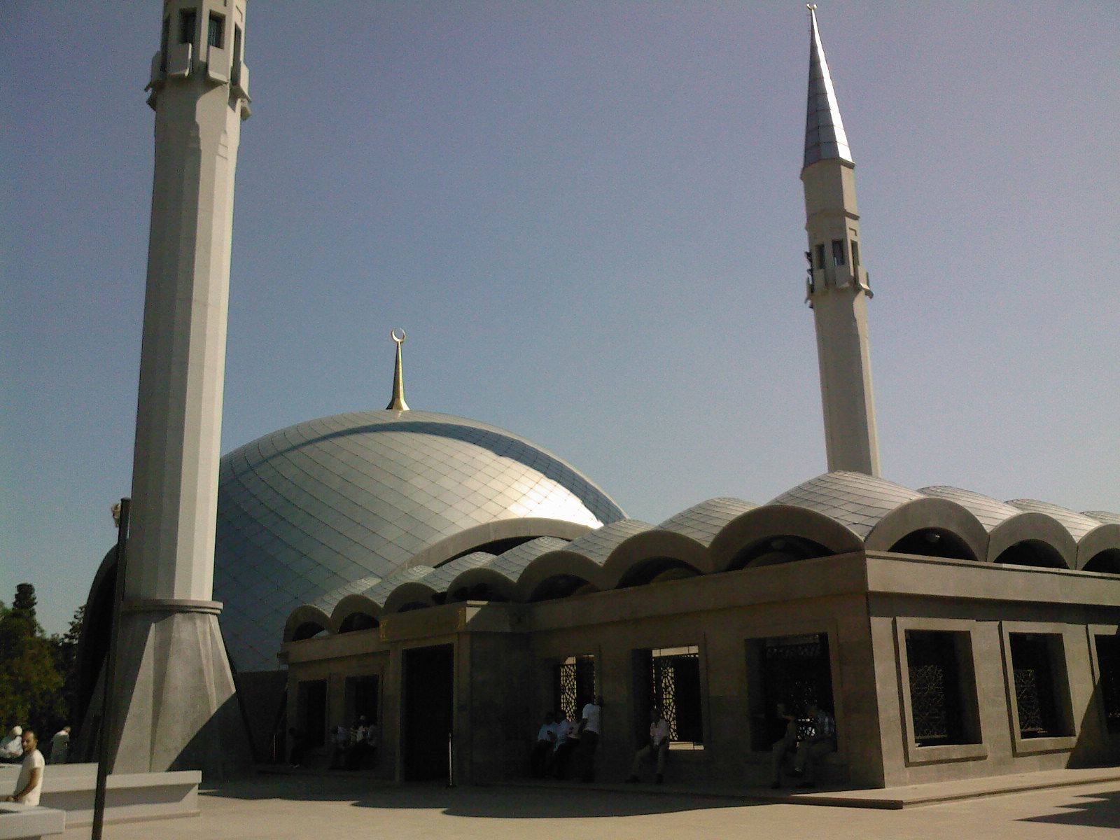 Façade, with dome, minarets, and undulating roof, of Şakirin mosque, in Üsküdar, Istanbul, Turkey.